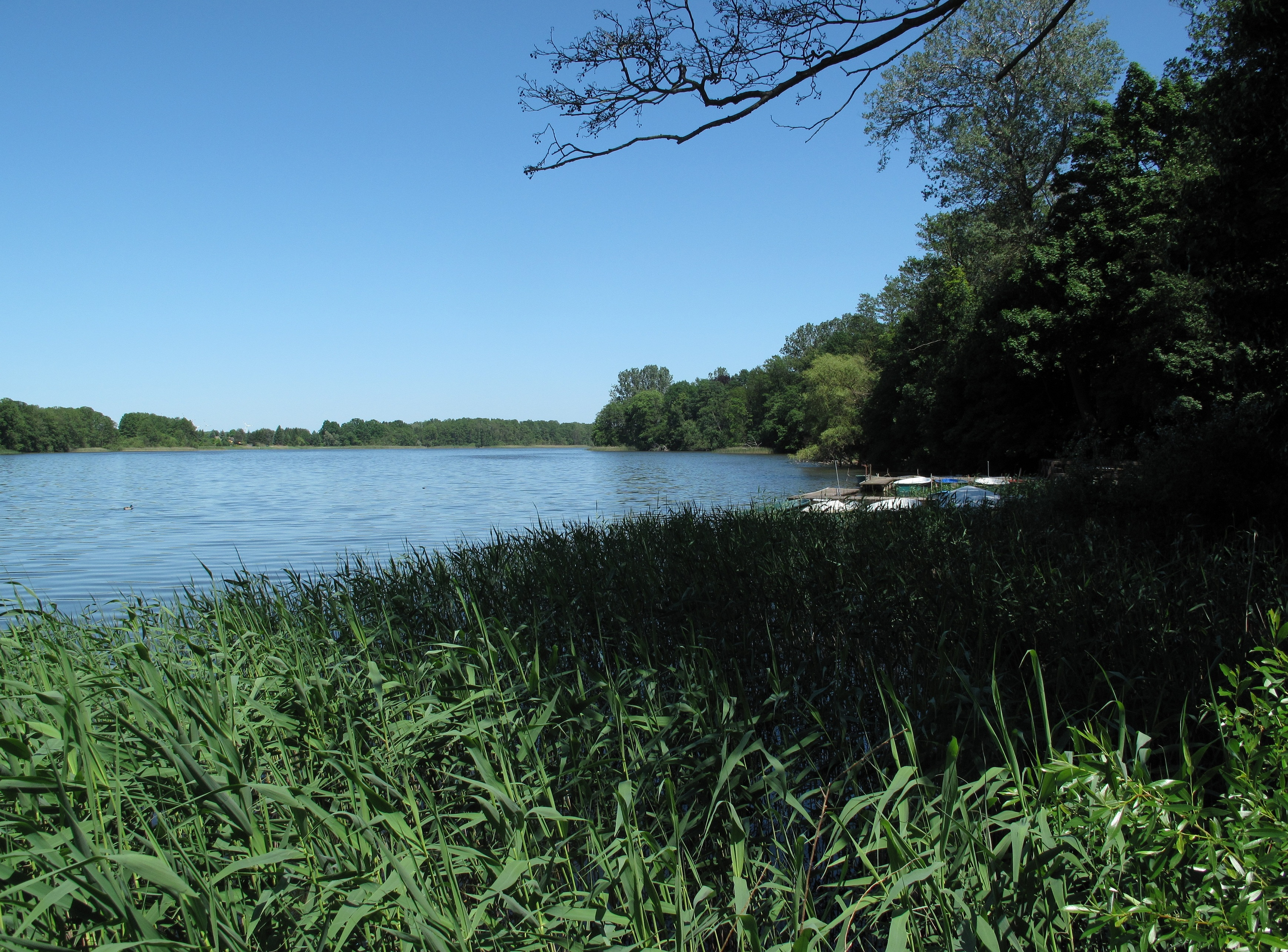 The Bauernsee is a lake in Kagel, part of the municipality Grünheide, District Oder-Spree, Brandenburg, Germany. The lake covers 41 hectare.